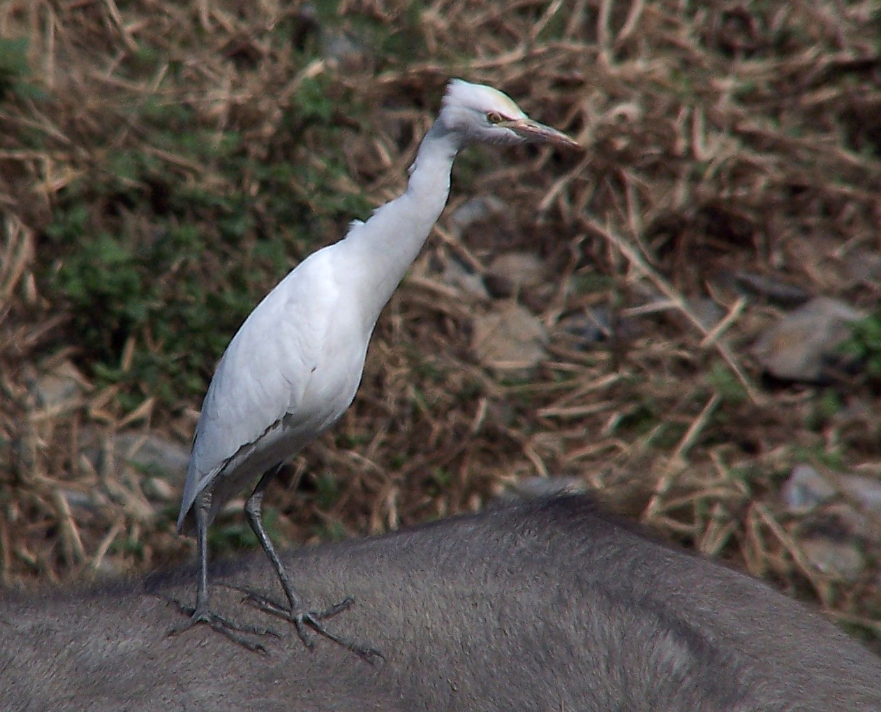 Eastern Cattle Egret (Bubulcus coromandus) on back of a large animal in winter, Hong Kong.